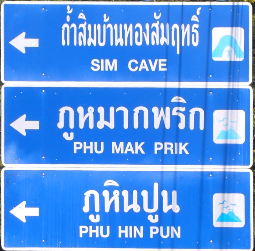 SIM CAVE (Ban Thong Somrit), PHU MAK PRIK and PHU HIN PUN mountains